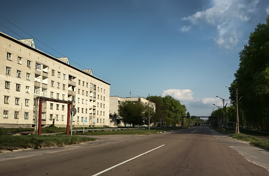 Chernobyl, Kirova Street